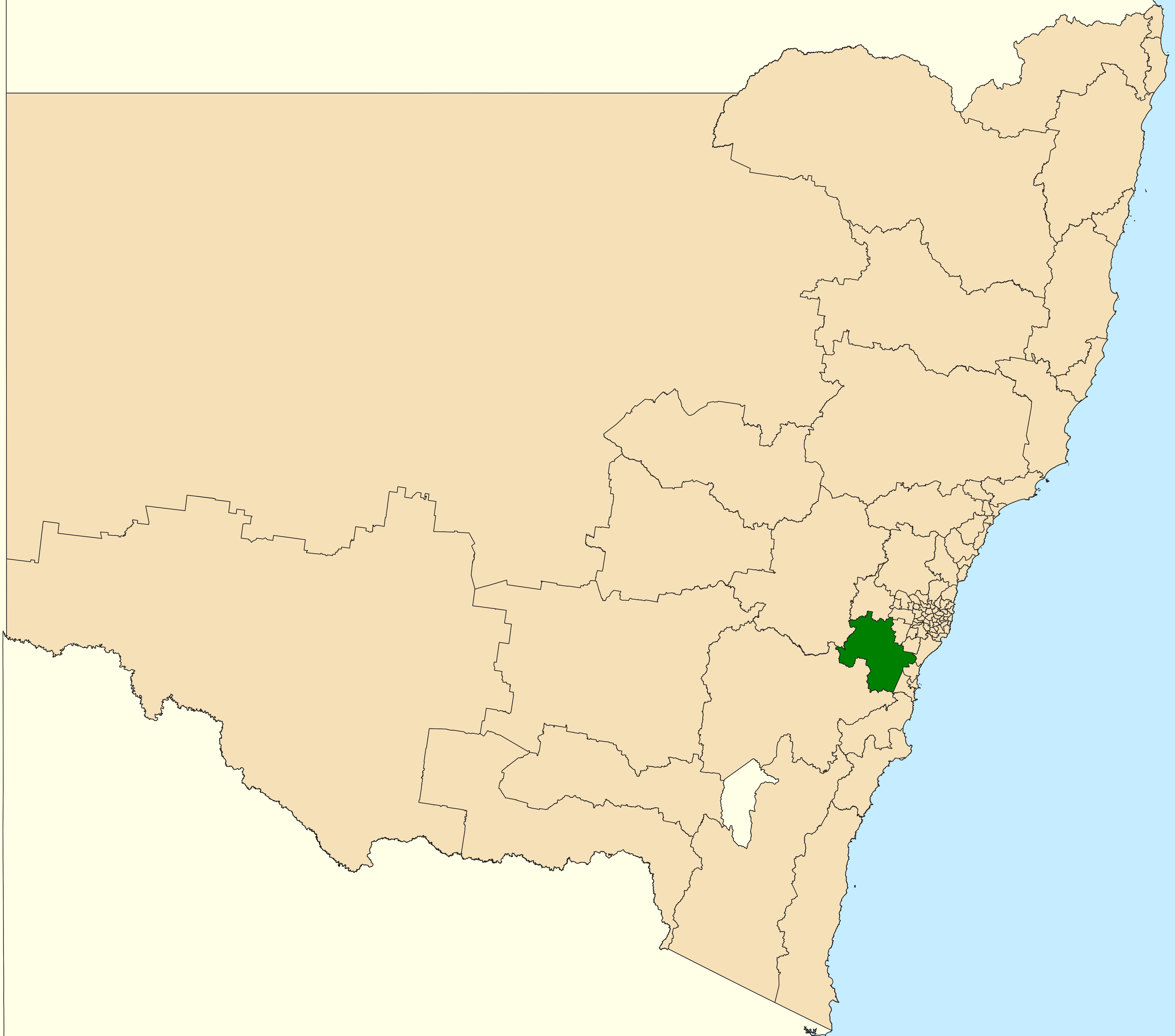 Location of the state electoral district of Wollondilly (dark green) in New South Wales as of the 2019 New South Wales state election. Incorporates or developed using Administrative Boundaries ©PSMA Australia Limited licensed by the Commonwealth of Australia under Creative Commons Attribution 4.0 International licence (CC BY 4.0).